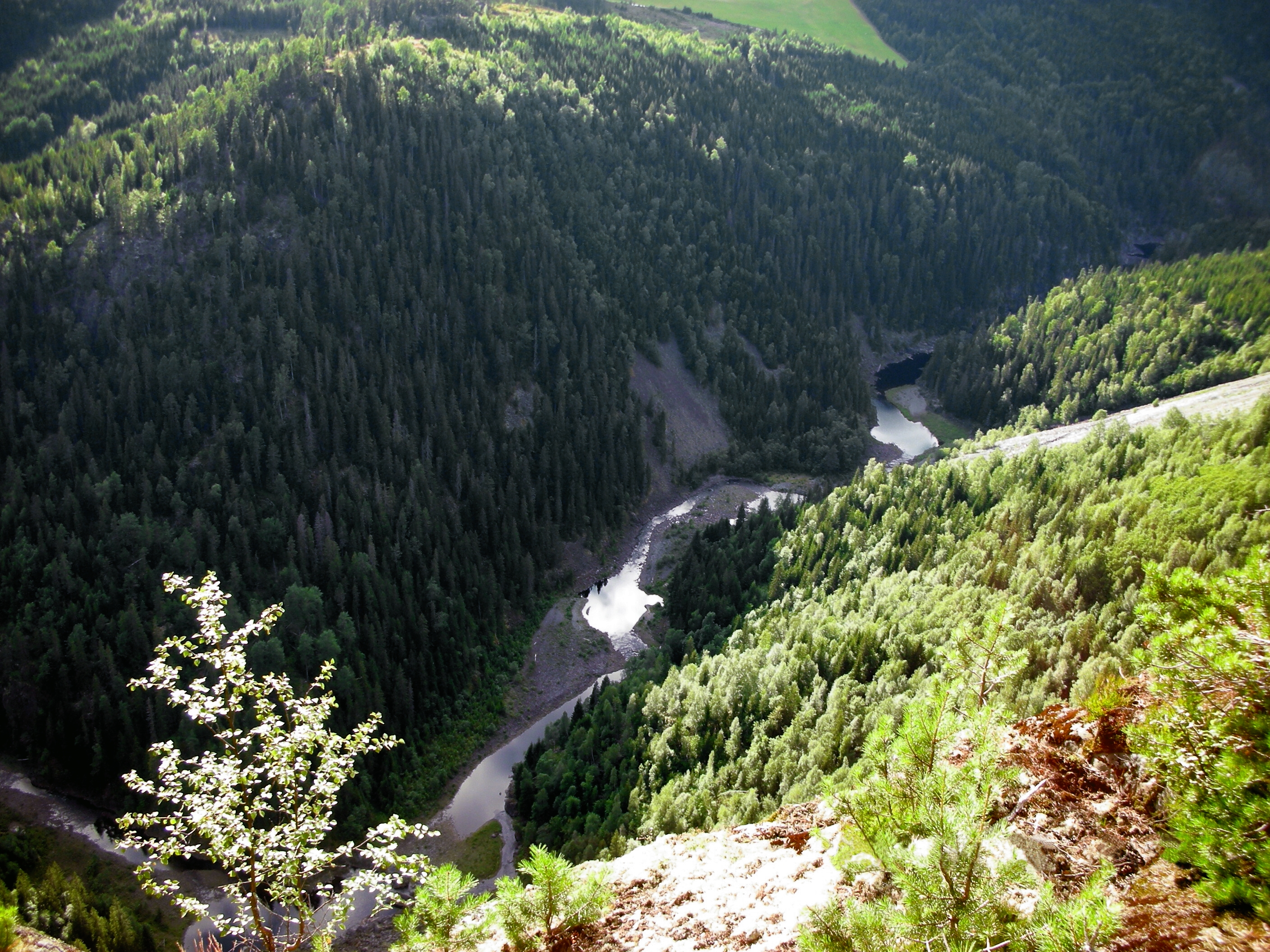 The river Tokke seen from the steep hill Ravnegjuv, Telemark, Norway.